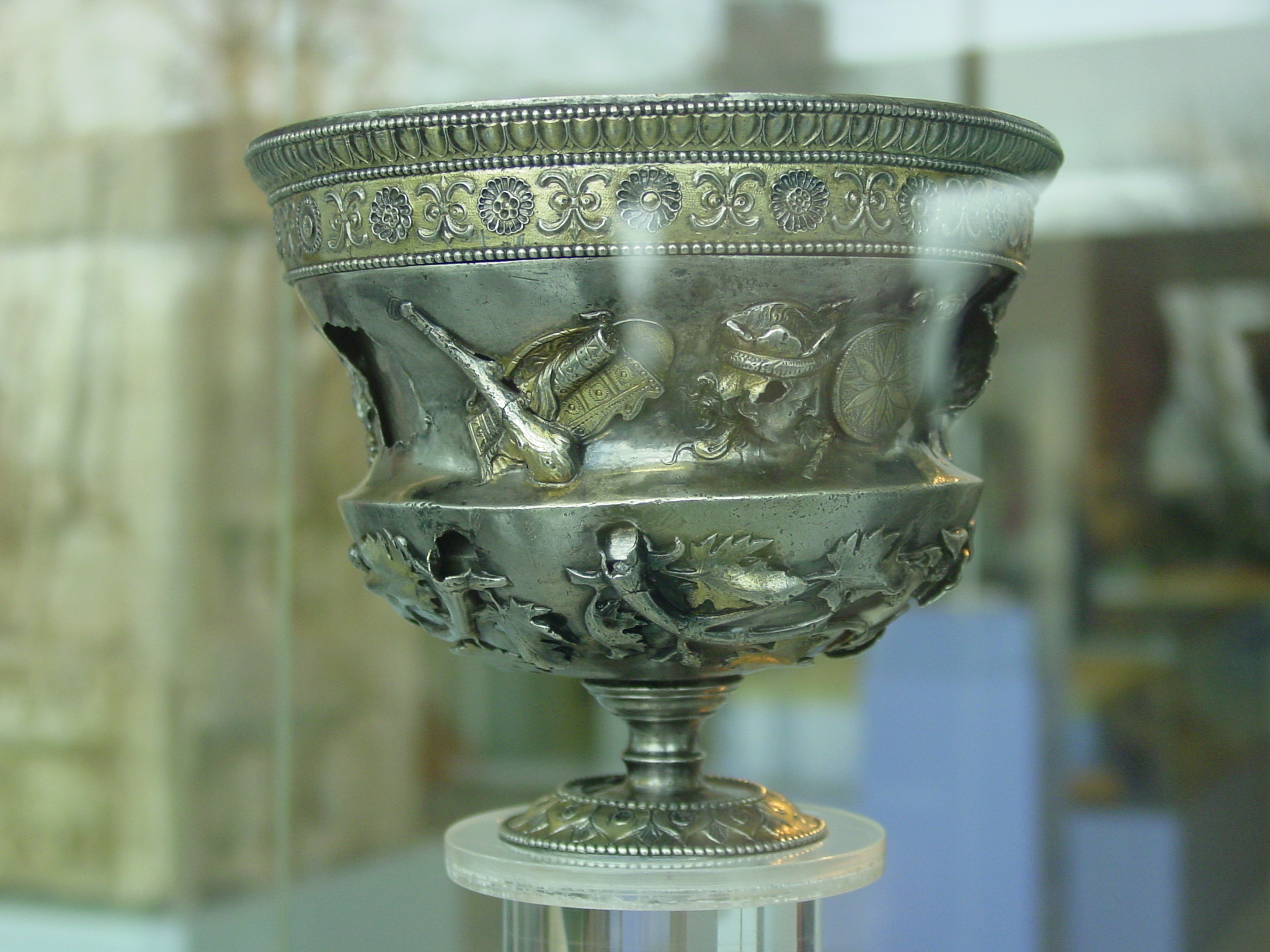 Silver cup, Roman-Greek origin. Found in 1943 near Stevensweert, the Netherlands. The cup was the object of legal battle that set precedent in Dutch contract law. The cup is since known as the "Kantharos van Stevensweert" The cup is currently on display at Museum Het Valkhof in Nijmegen, the Netherlands.